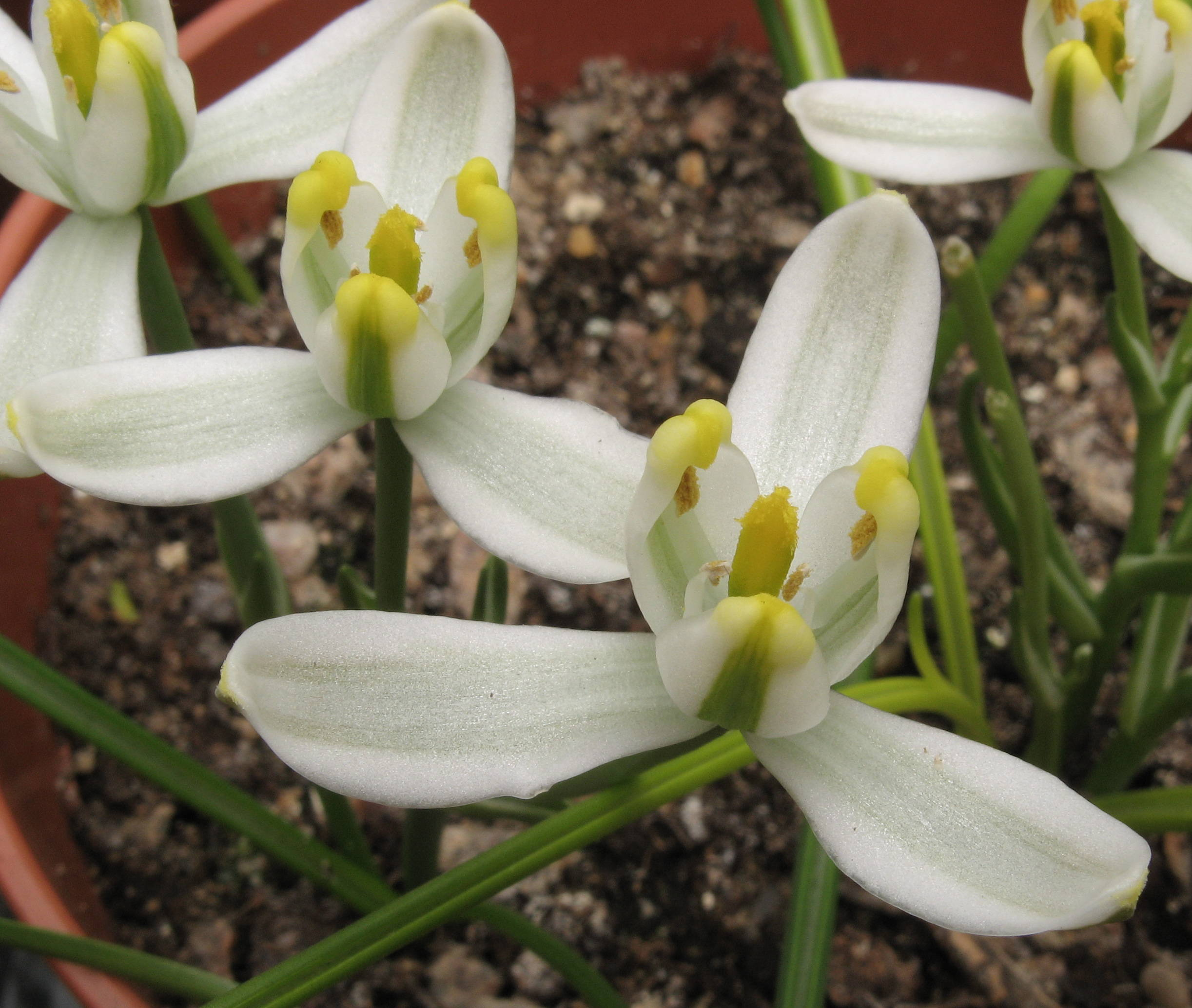 Albuca humilis in cultivation